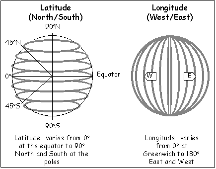 A simple figure showing Latitude and Longitude